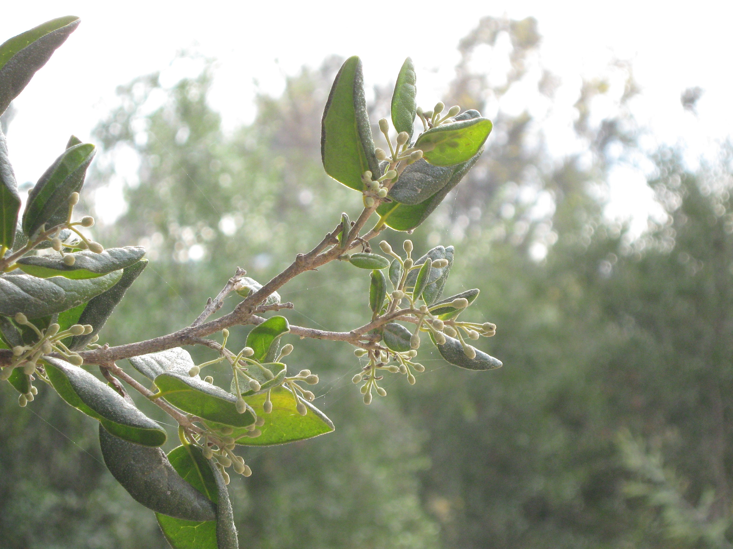 Peumus boldus, Lo Vasquez- Sanctuary, V Region, Chile